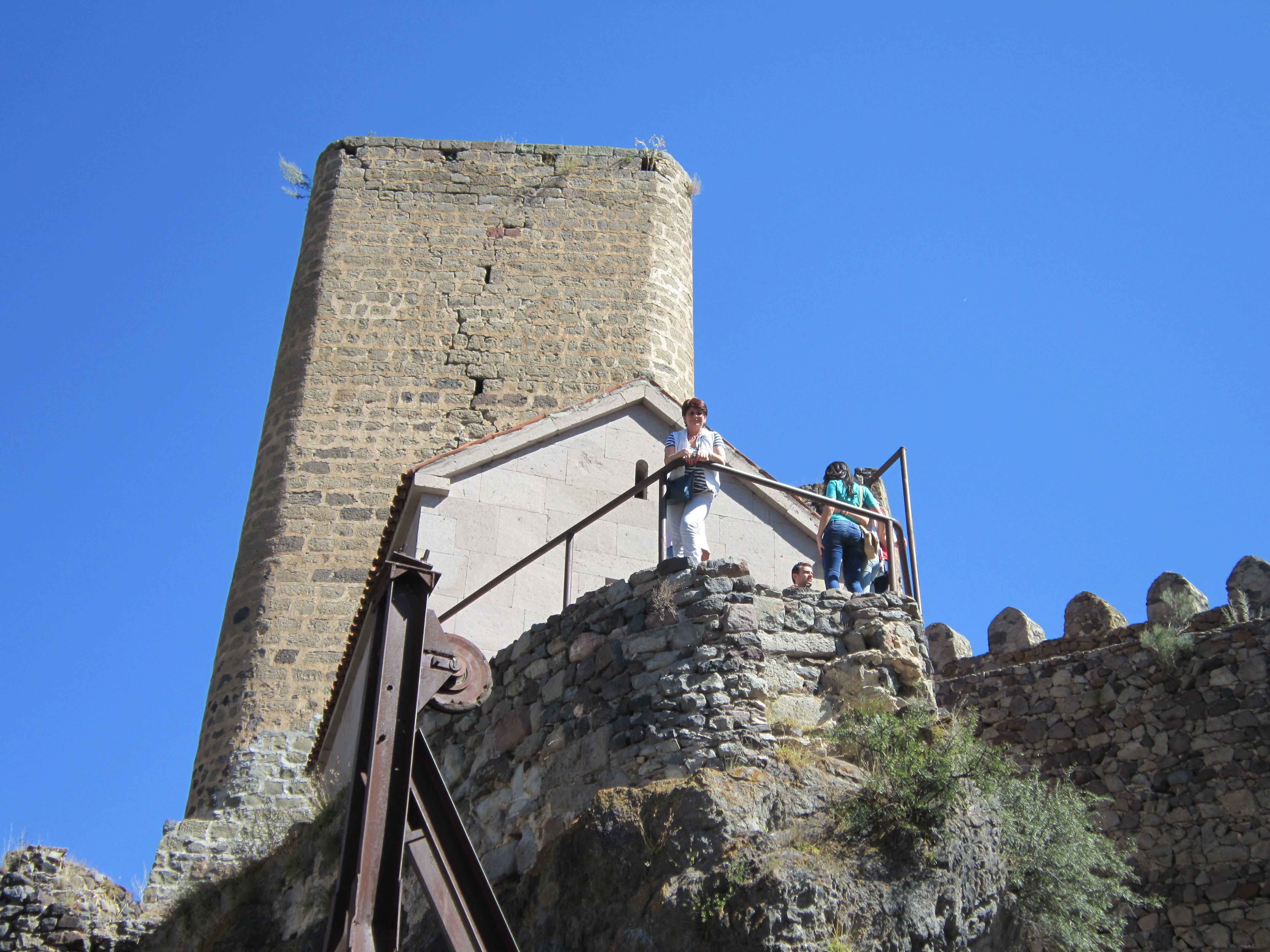 Immovable Cultural Monument of National Significance of Georgia